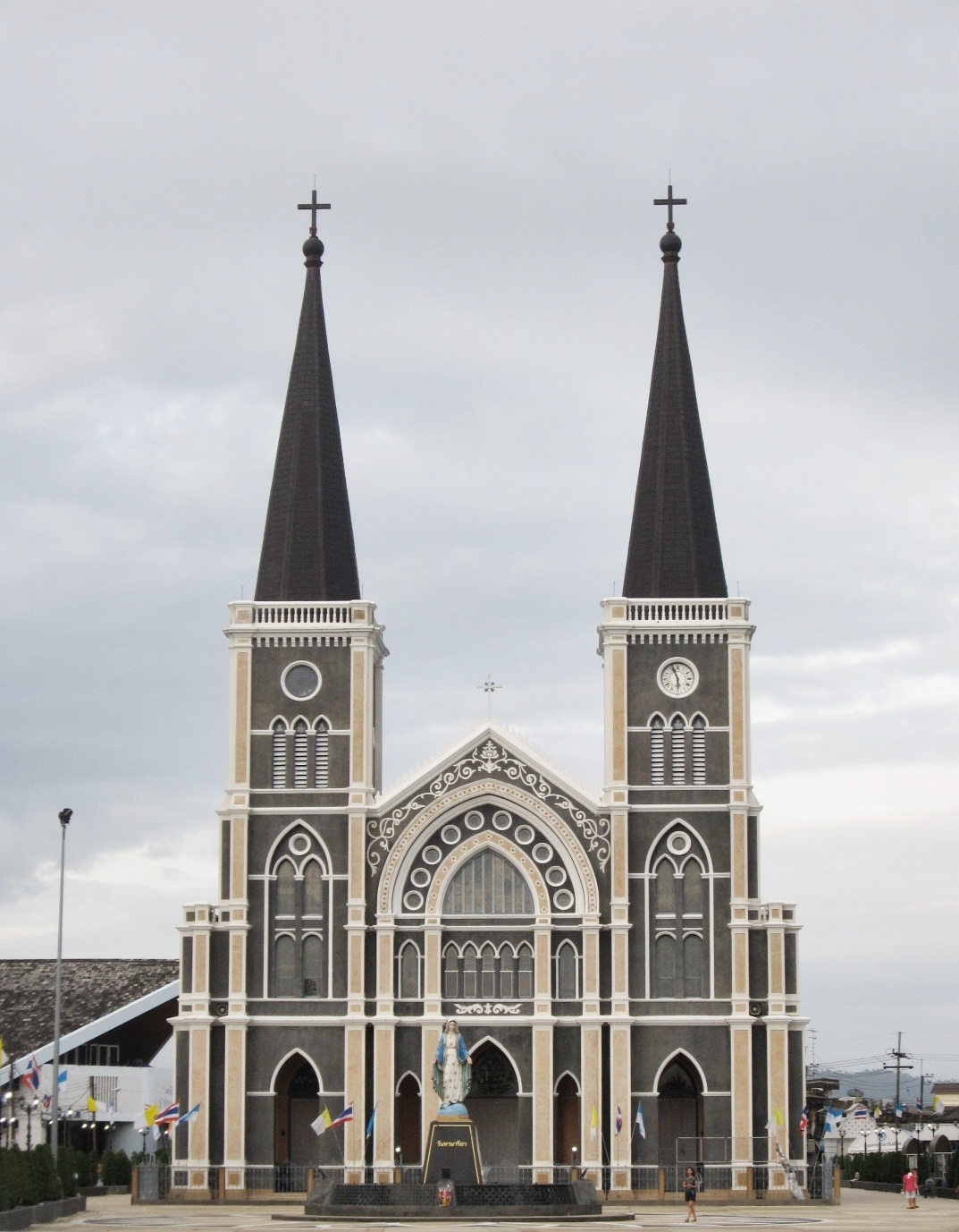 Cathedral of the Immaculate Conception The largest Catholic church in Thailand, built in 1909, Chanthaburi